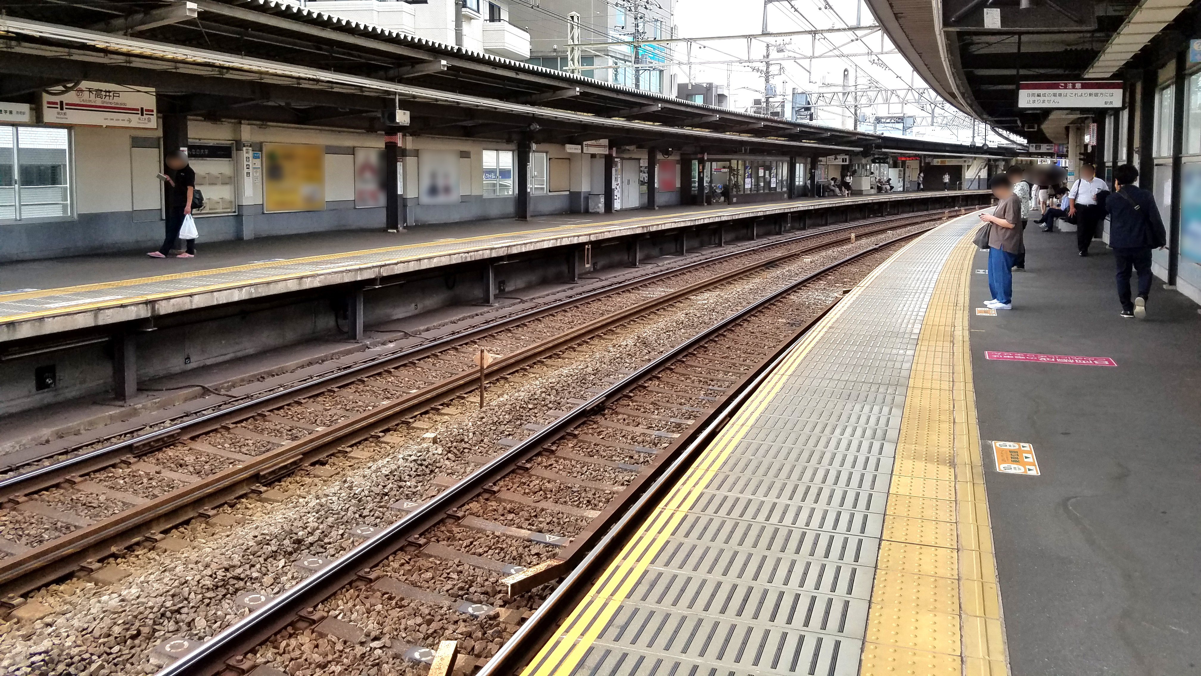 The platforms at Shimo-Takaido Station on the Keiō Line in Setagaya city, Tokyo, Japan